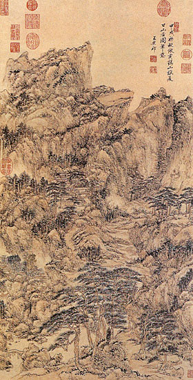 Painting by Qing Dynasty artist Wang Yuanqi, Mountain Dwelling on a Summer Day, after an original by the Yuan Dynasty artist Wang Meng.